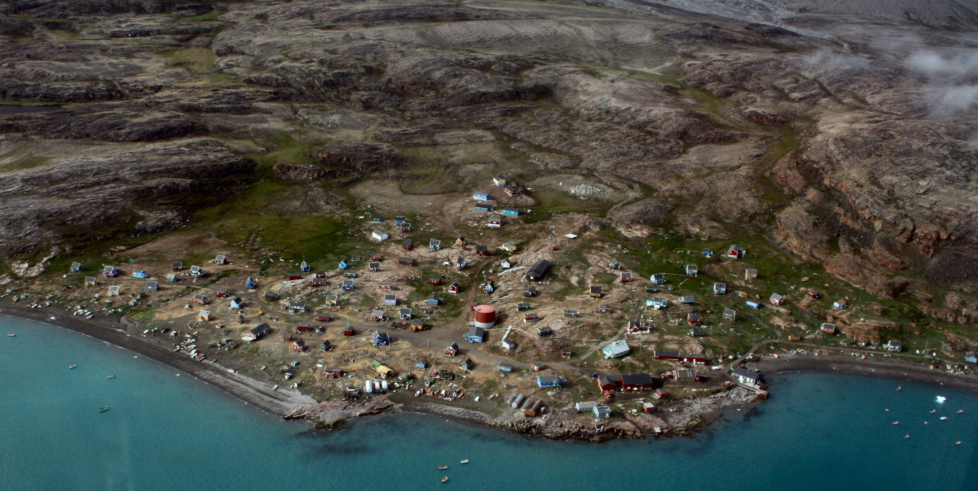 Aerial view of the Greenland village Qaarsut, in Qaasuitsup municipality